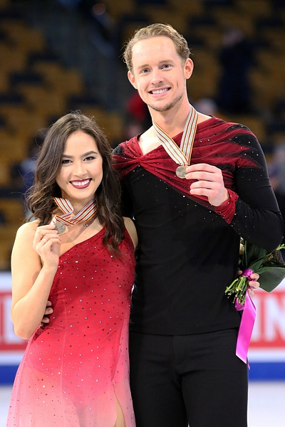 Madison Chock and Evan Bates at the 2016 World Championships